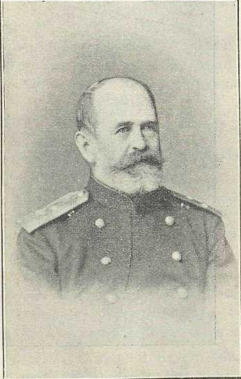 General of Cavalry Alexander Alexeevitch Rebinder.